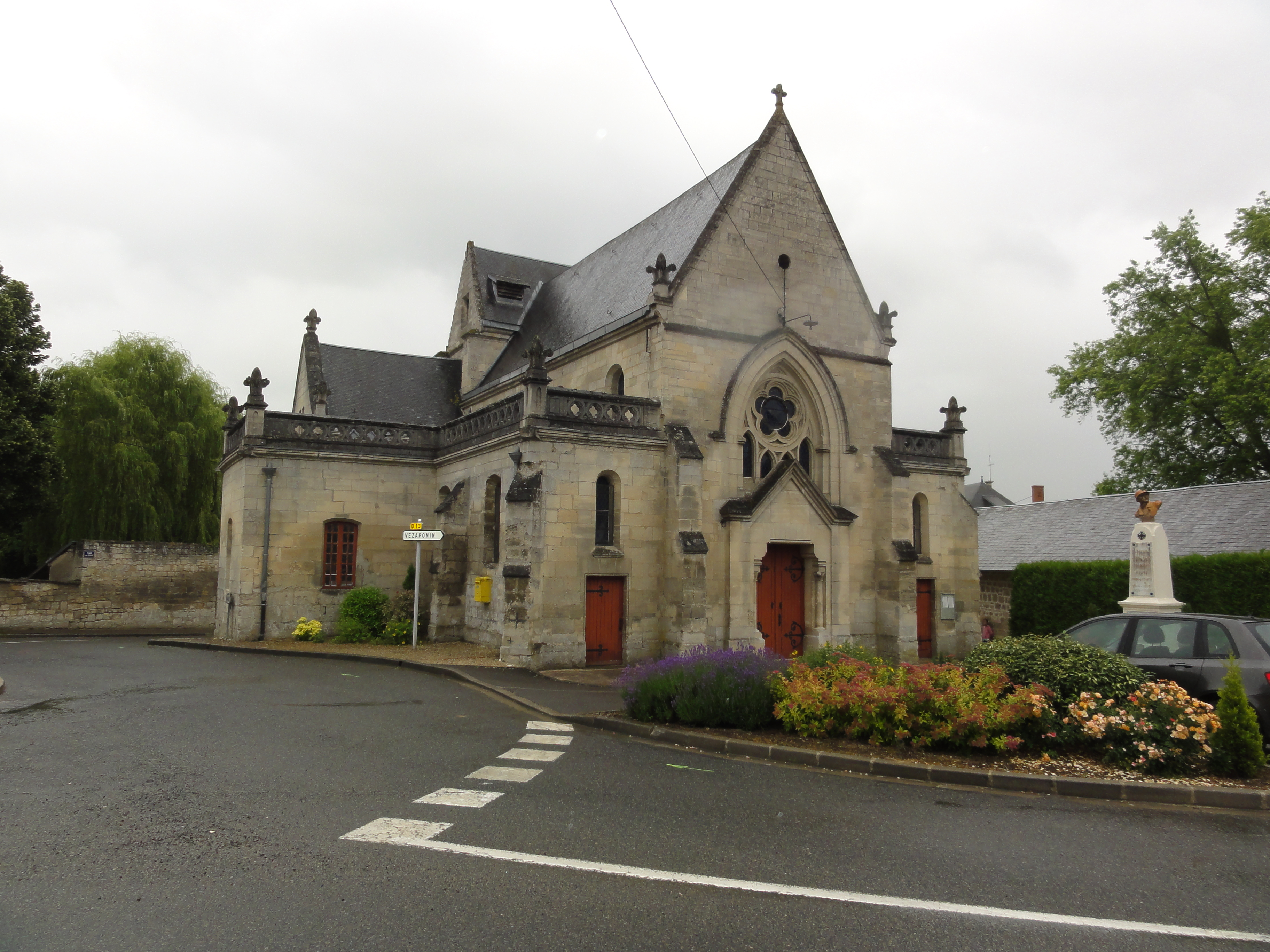 Épagny (Aisne) église